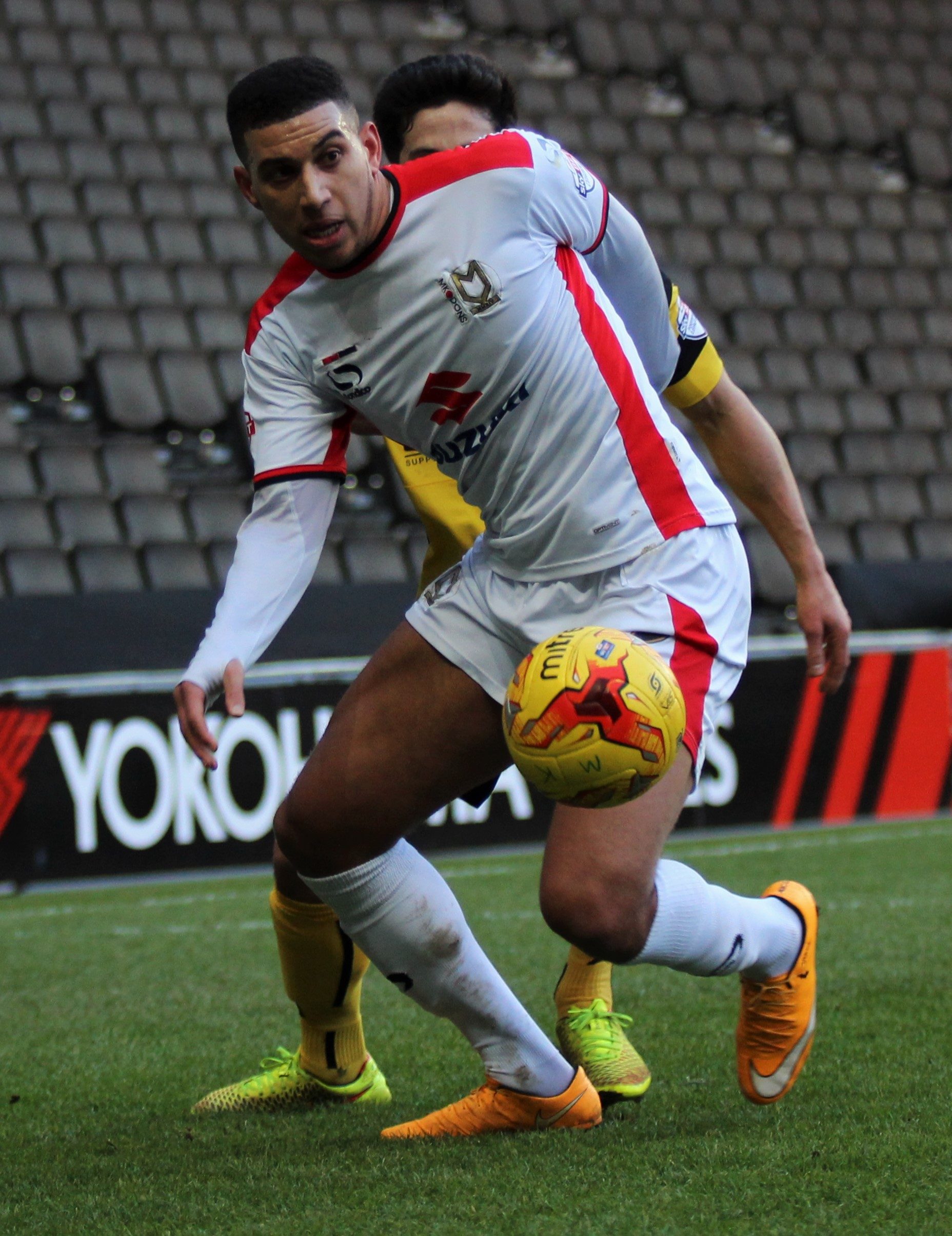 Daniel Powell of MK Dons shields the ball during the League 1 game against Barnsley